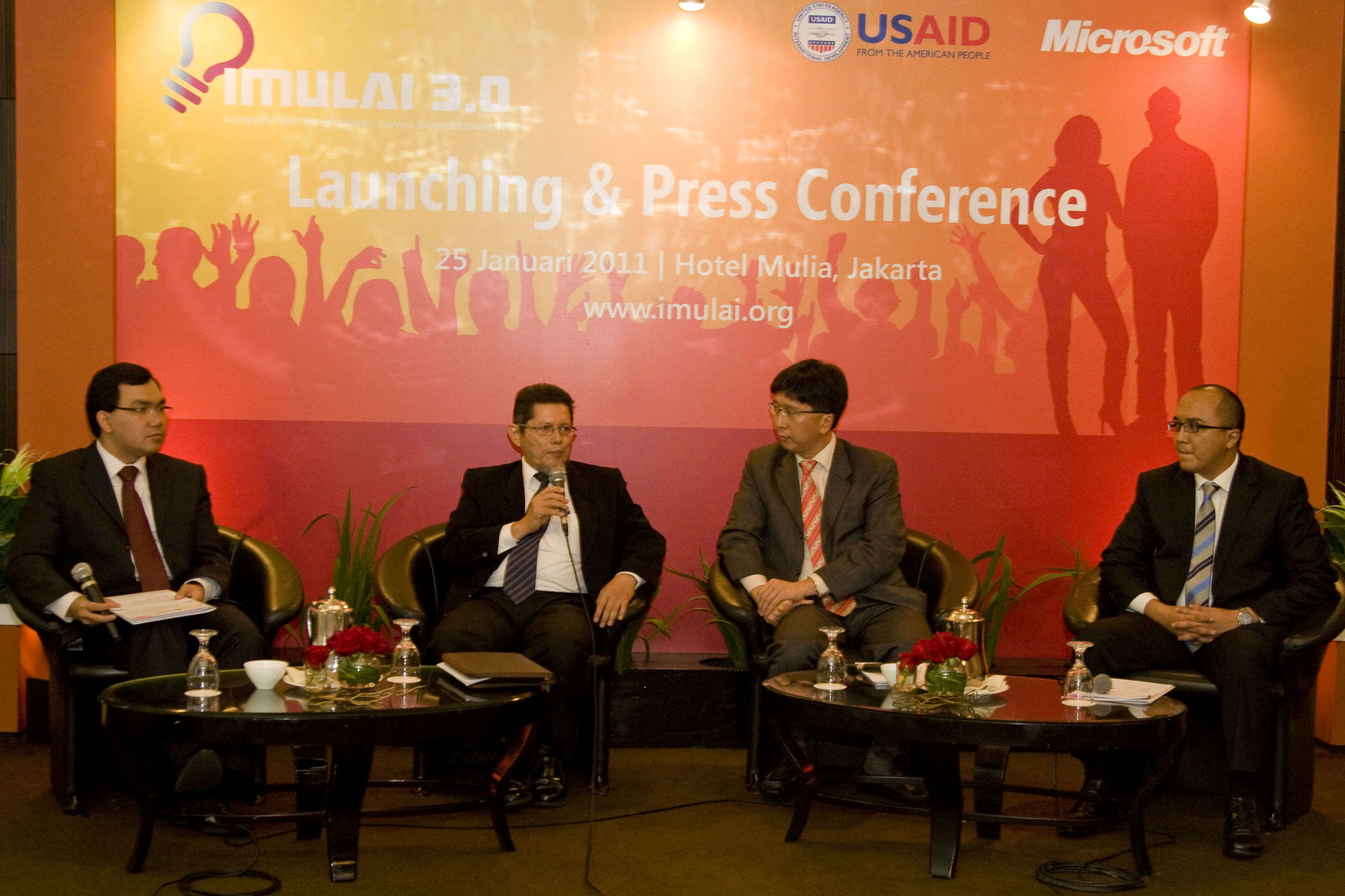 Press conference at the launching of iMULAI 3.0. USAID and Microsoft Indonesia launched iMULAI 3.0, a national open source software competition. iMULAI 3.0 aims to promote local entrepreneurs that utilize information technology (IT) to create new and innovative businesses. more on iMULAI